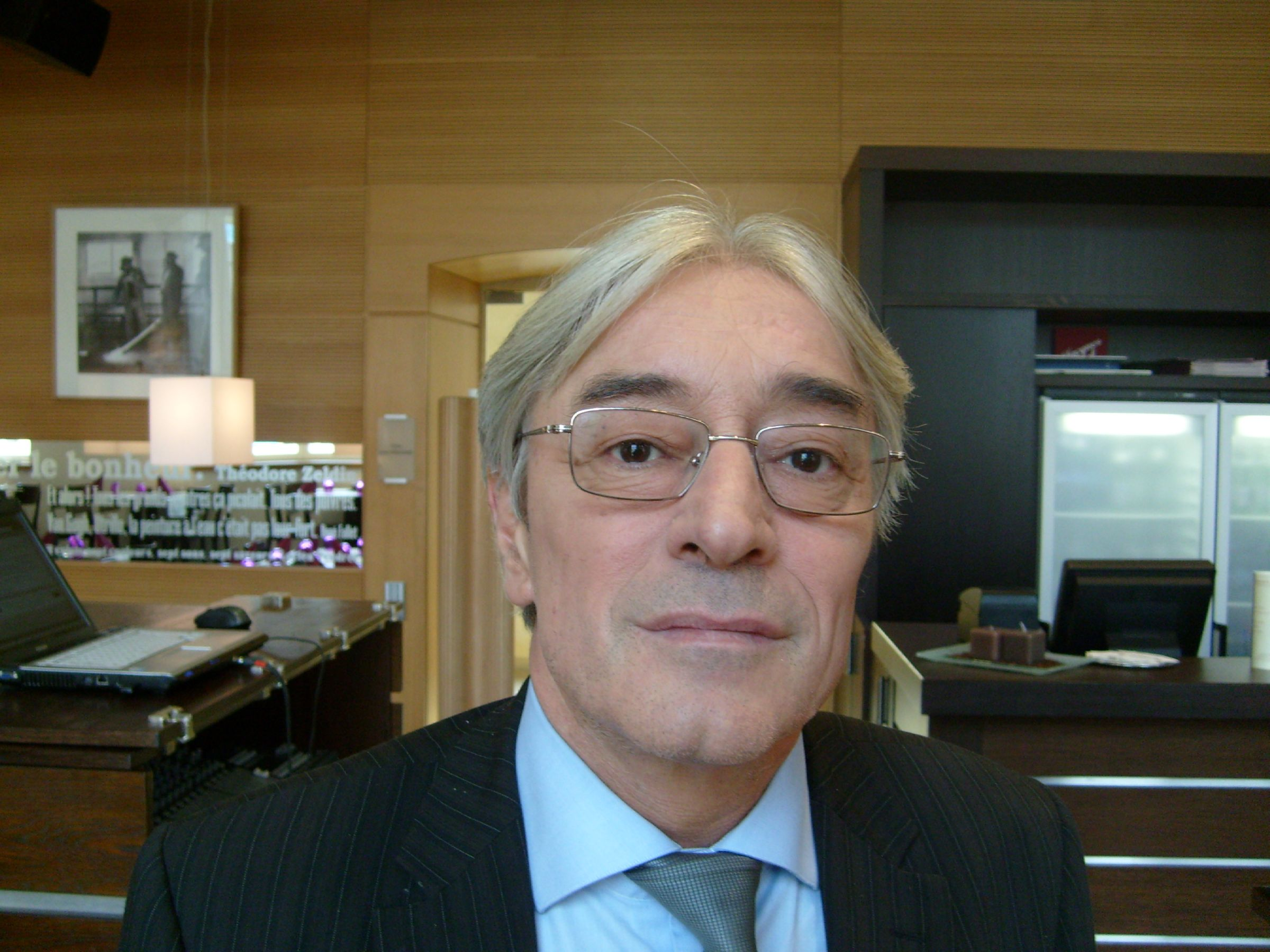 Claude Frisoni in the "Brasserie" of CCRN, Luxembourg-city. French author, theatre actor, cultural director living and working in Luxembourg.